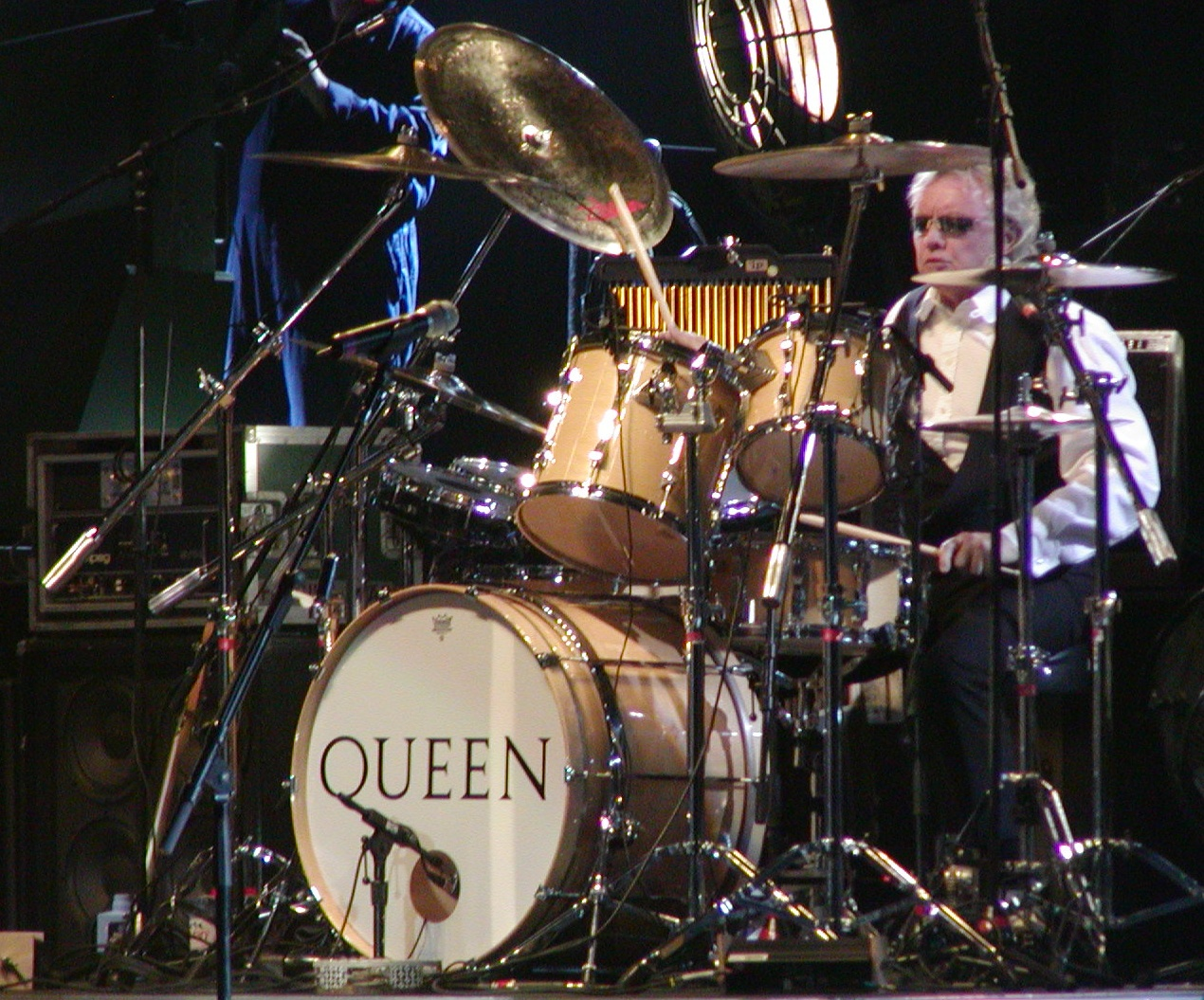 Roger Taylor @ Queen + Paul Rodgers live in Frankfurt, Germany